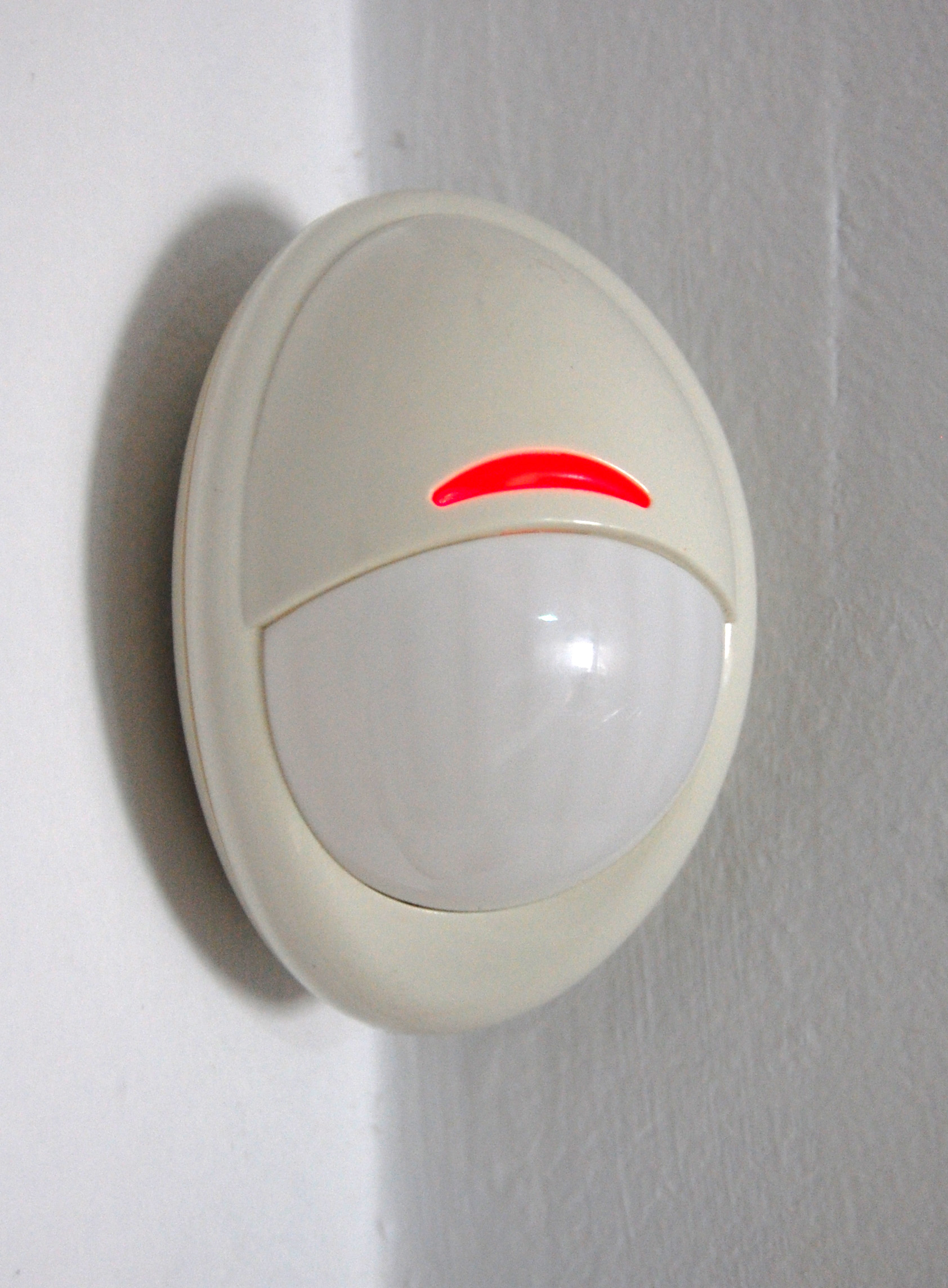 Passive infrared sensor. The red light indicates that is activated by a movement.